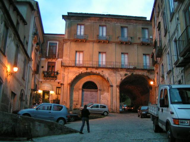 Portal arch on Via Gaetano Argento in the old town of Cosenza, better known as "Archi di Ciaccio"